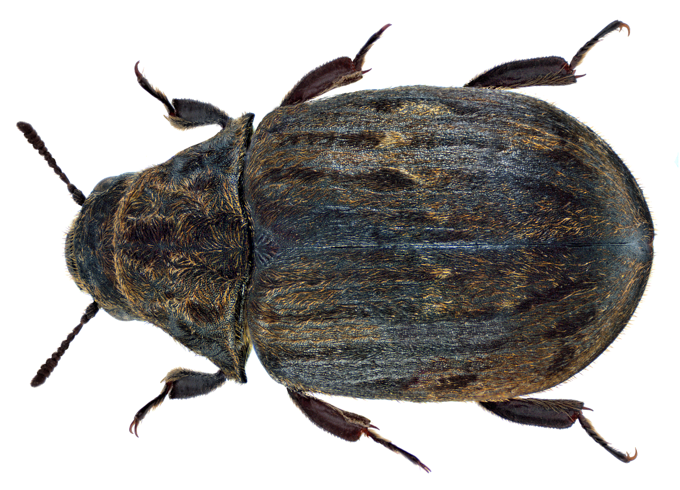 Family: Byrrhidae Size: 8,0 mm (6,5-8,0 mm) Origin: Europe Ecology: feed on moss Location: Italy, Suedtirol, Trentino, Stilfser Joch, 2700 m leg. J.Scheuern, 23.VII.1979; det. O.Jaeger, 2006 Photo: U.Schmidt, 2013